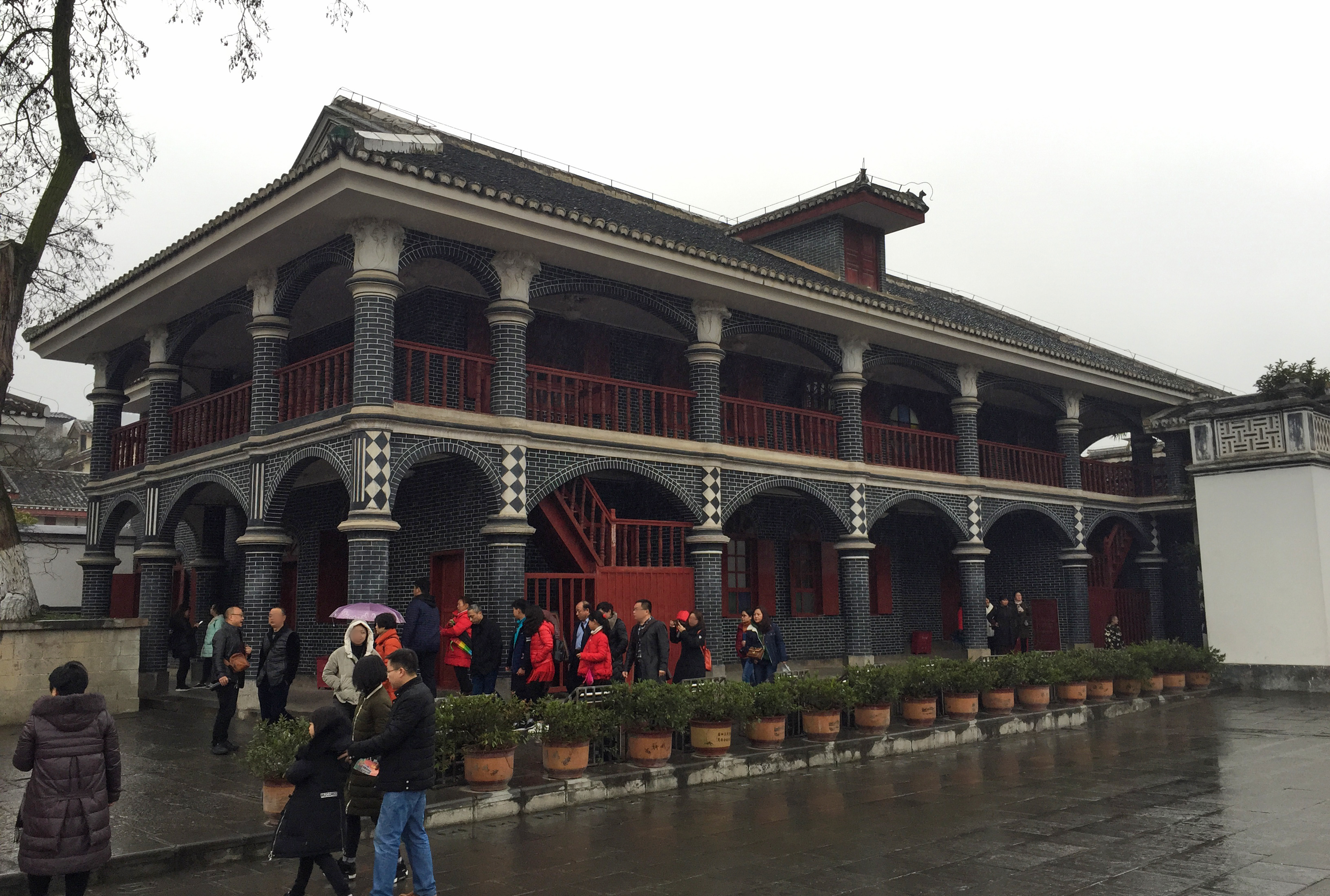 Luckily this spot is not that noisy.